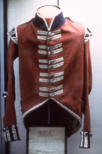 Royal NS Volunteer Uniform, Citadel Hill, Halifax, Nova Scotia